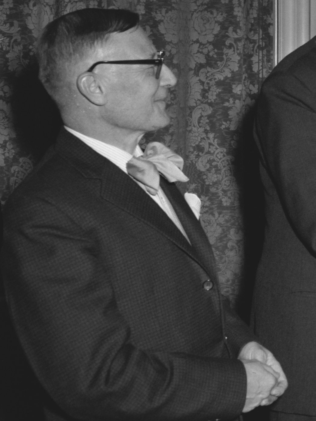 Dutch writer Antoon Coolen during the ceremony of the Martinus Nijhoff translation prize (to Max Schuchart), 26 January 1959